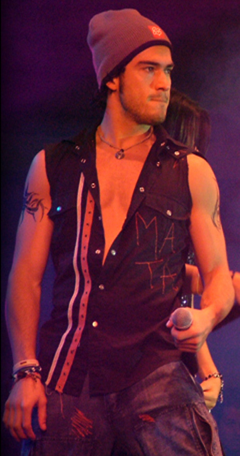 Mexican actor Alfonso Herrera